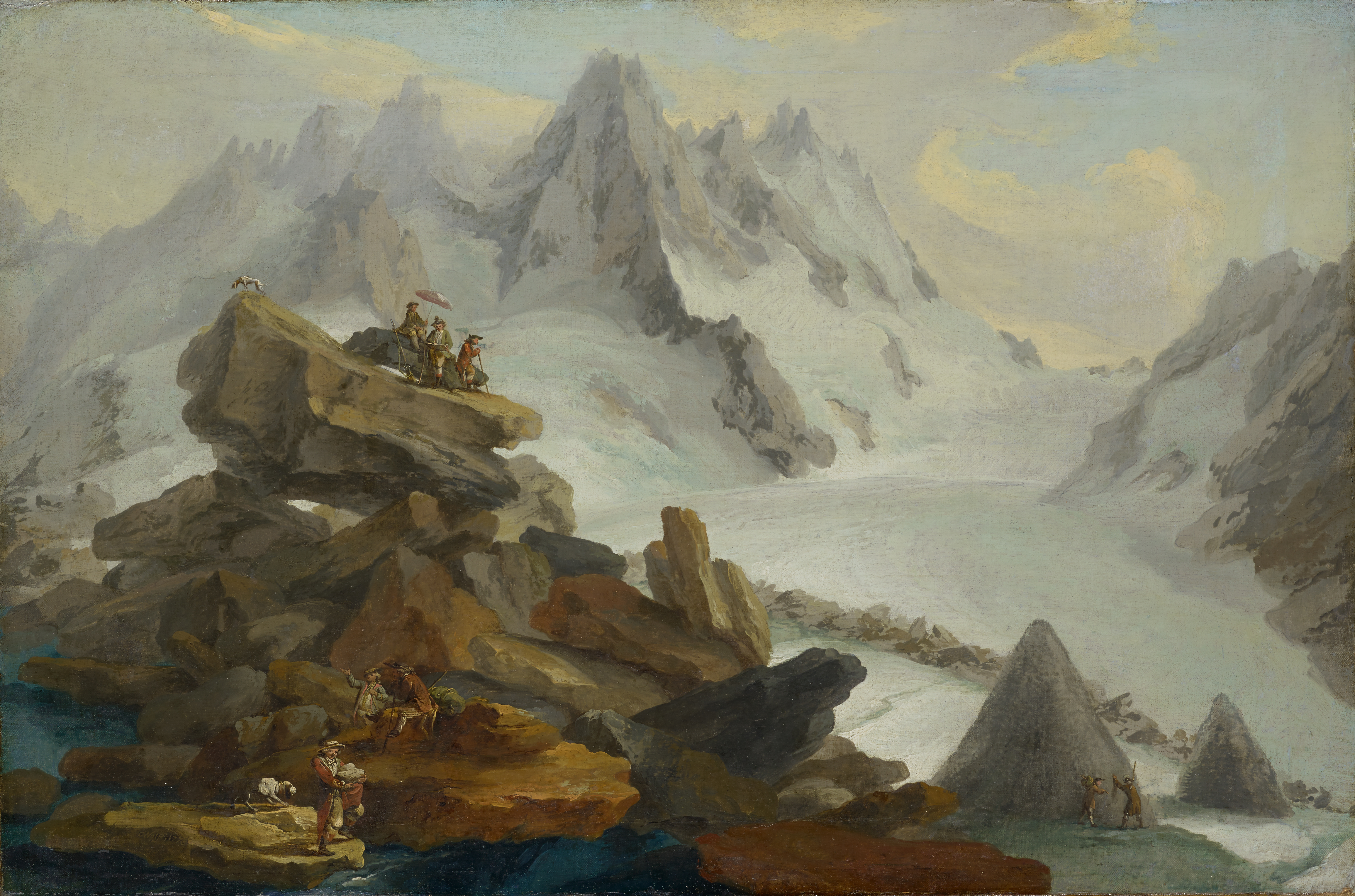 The Lauter-Aar-Glacier (literally "Clear Aare-Glacier") with the rock named "Stone Table" in front